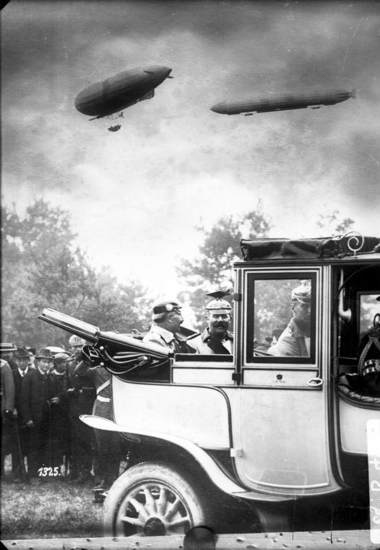 Translation: Imperial maneuvres, Kaiser Wilhelm II and Archduke Franz Ferdinand of Austria in the car, sitting right. The military airship "Parseval". [Photographer Tellgmann added the airships to the picture]. Clarification: Wilhelm II is sitting left, Franz Ferdinand is sitting right, the Groß-Basenach airship (probably M I) is on the left, and the Zeppelin on the right.